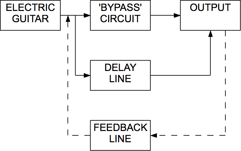 "Block diagram of the signal-flow for a typical simple delay-line," tied to an electric guitar for example. Dotted line indicates variable component. Hodgson, Jay (2010). Understanding Records, p.124. ISBN 978-1-4411-5607-5.